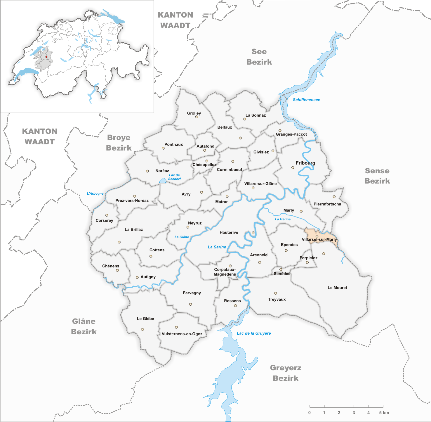 Municipality Villarsel-sur-Marly